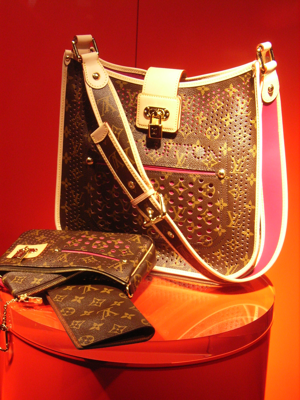 路易·威登（Louis Vuitton）at HK Landmark, Central, Hong Kong